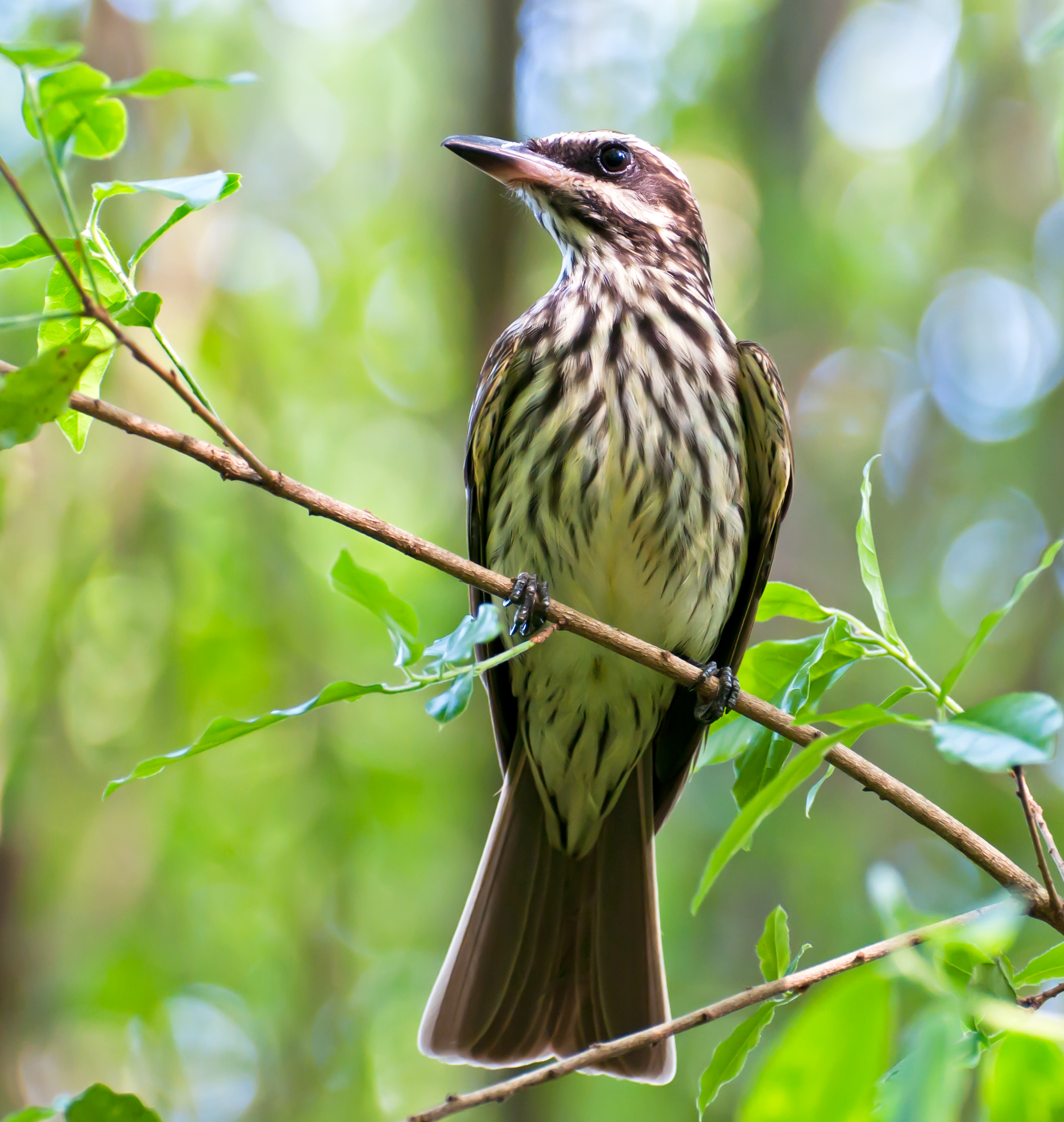 A Streaked Flycatcher at a nature reserve in Piraju, Brazil.